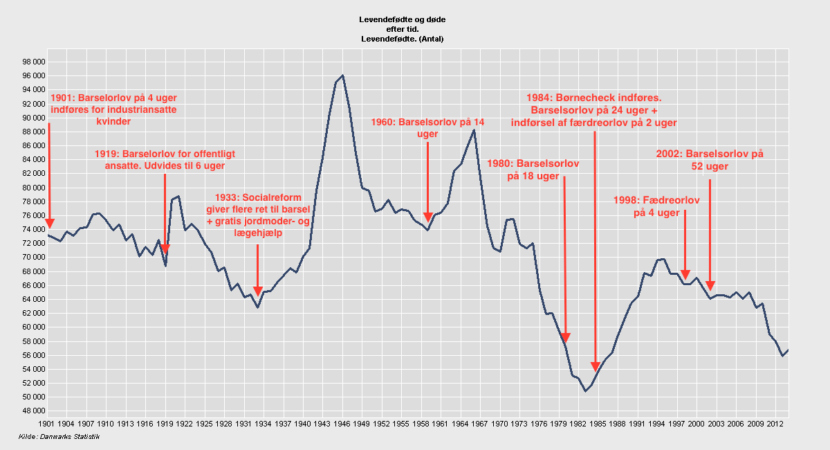 Births in Denmark 1901-2014